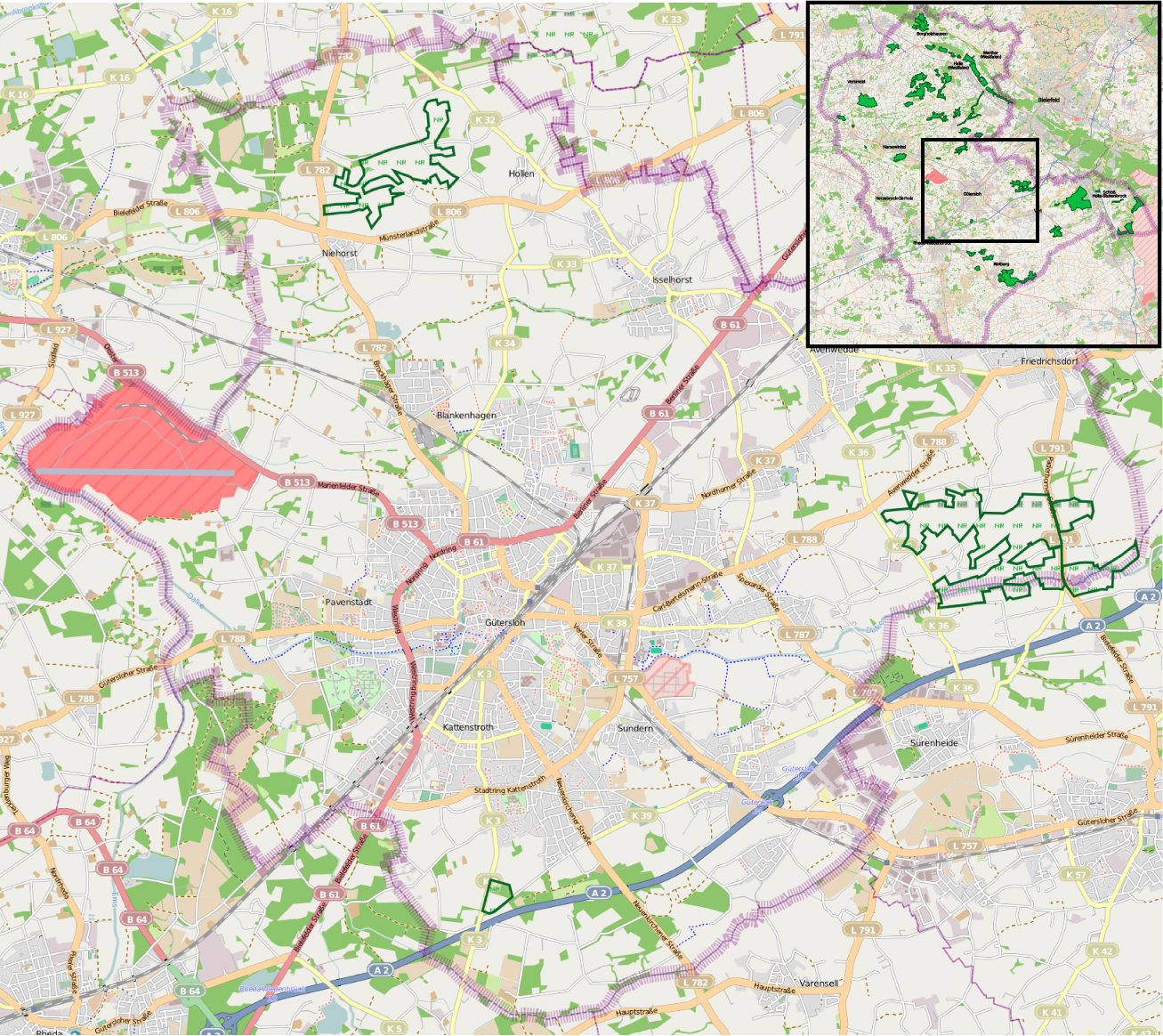 Nature reserves in Gütersloh - overview map Number and borders of nature reserves are subject to frequent change. In order to facilitate reproduction of this map from openstreetmap, the following data is stored here: export boundaries: north: 51.98; west: 8.28 south: 51.854; east: 8.28 mapnik svg, scale 1:70.000 nature reserve boundary stroke weight 3.5; nature reserve stroke color: R 5, G 102, B 36; district border stroke weight: 20